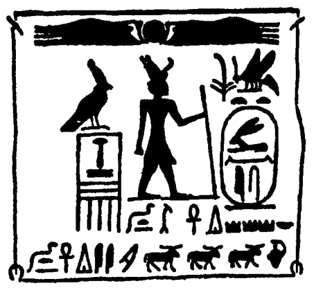 Rock inscription of Unas on Elephantine Island as drawn by Flinders Petrie.